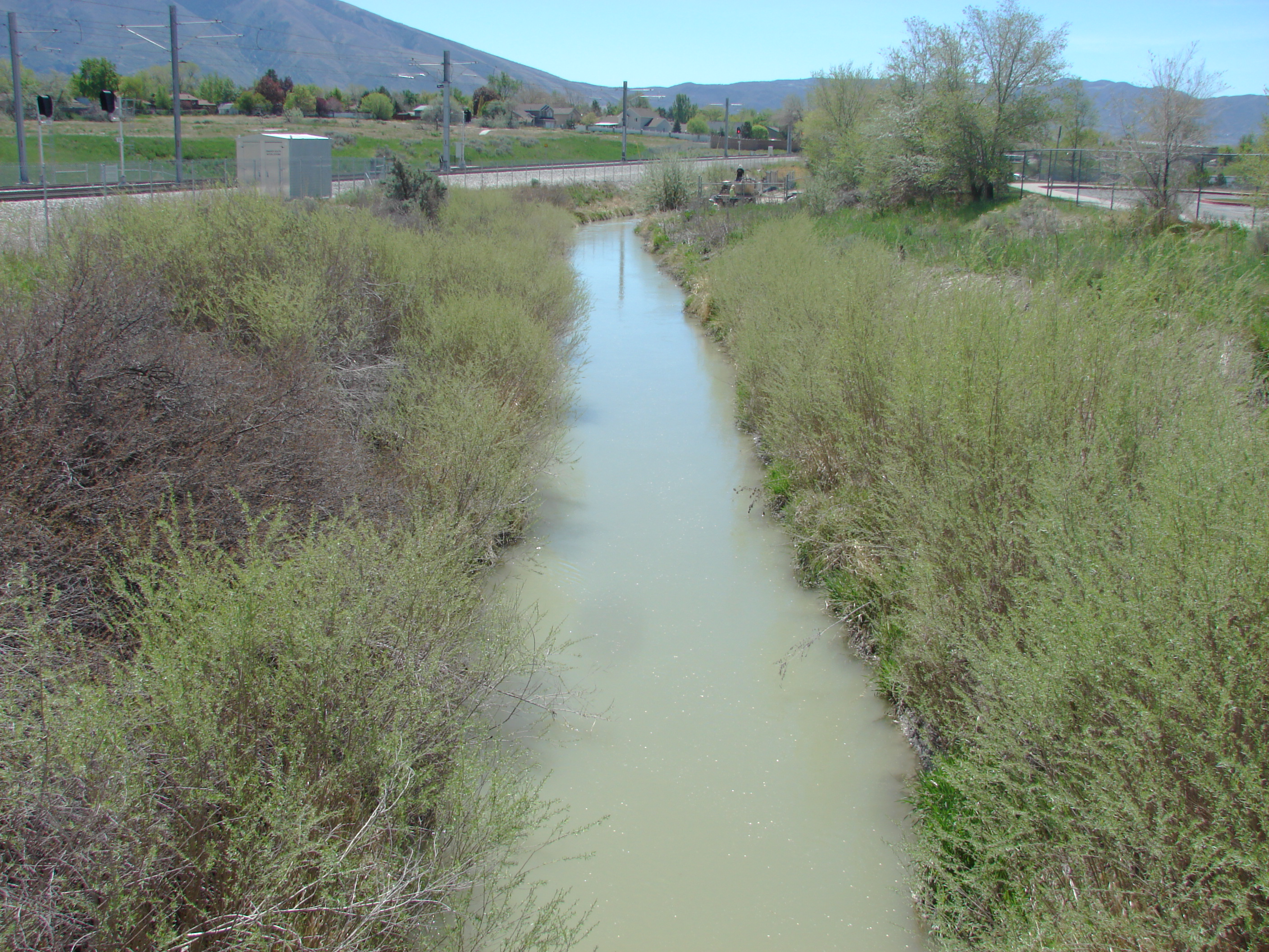 Looking south along the East Jordan Canal that divides the Park and Ride lot at the Sandy Civic Center Station